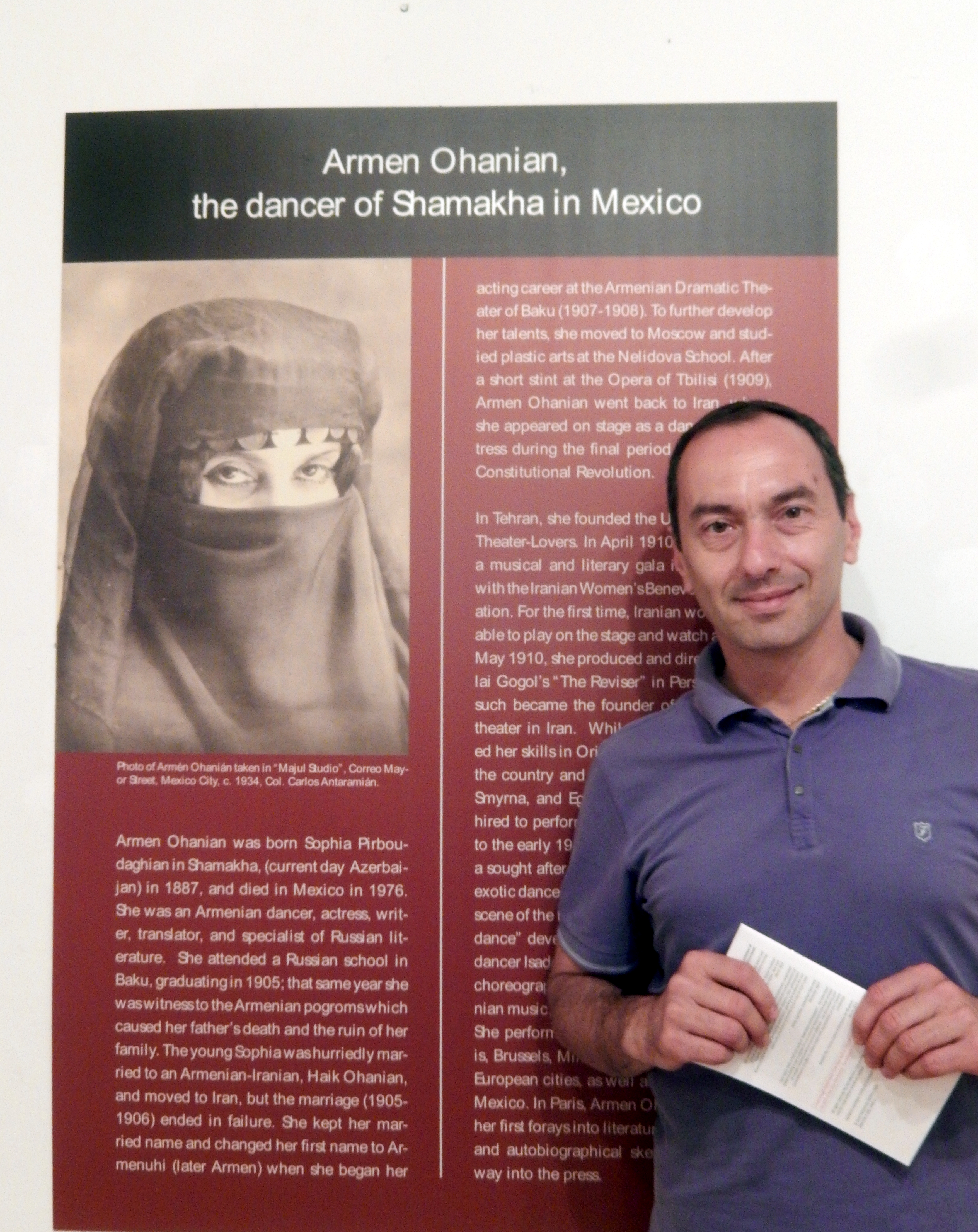 Artsvi Bakhchinyan in the exhibition "Armenians of Mexico"